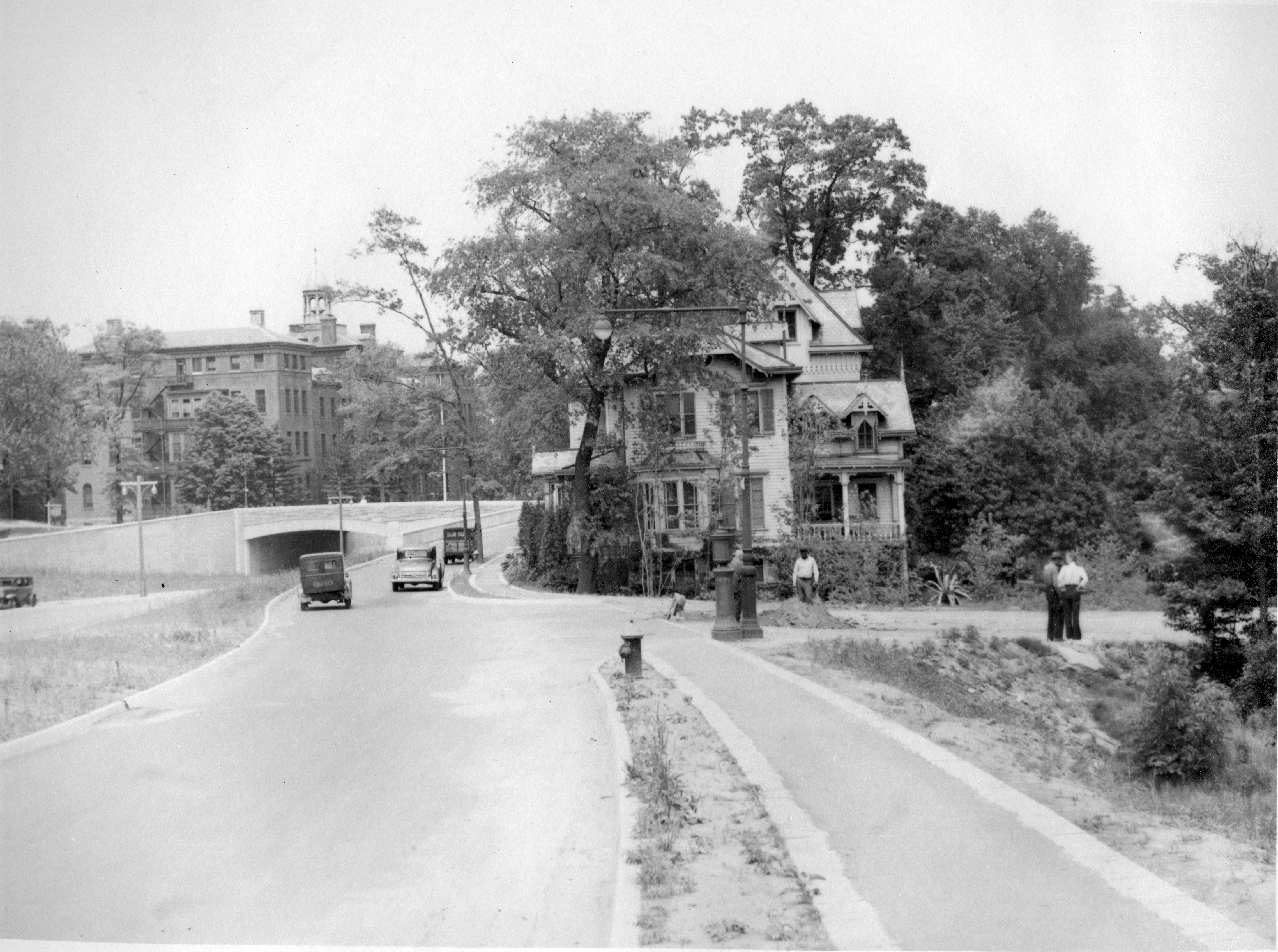 View of Henry Hudson Parkway, looking north, in Riverdale. c. 1934. Photo courtesy of MTA Bridges and Tunnels Special Archive.